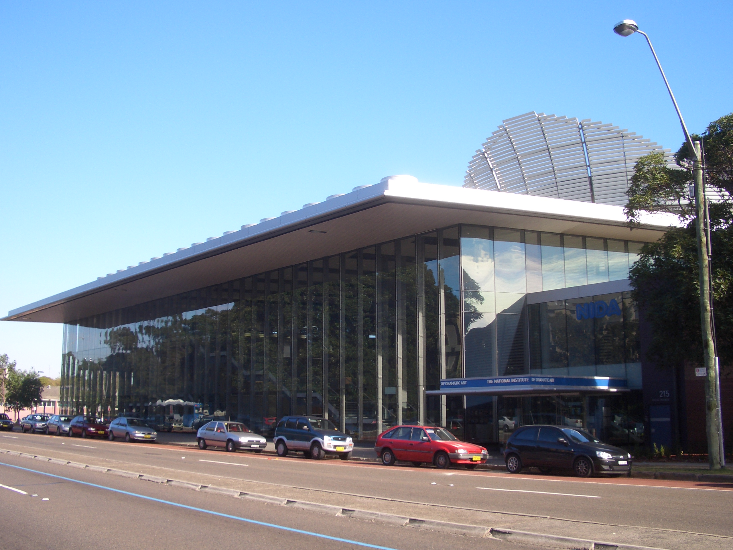 National Institute of Dramatic Art, Anzac Parade, where actors Mel Gibson, Cate Blanchett and Judy Davis were trained. Kensington. Anzac Parade, Sydney